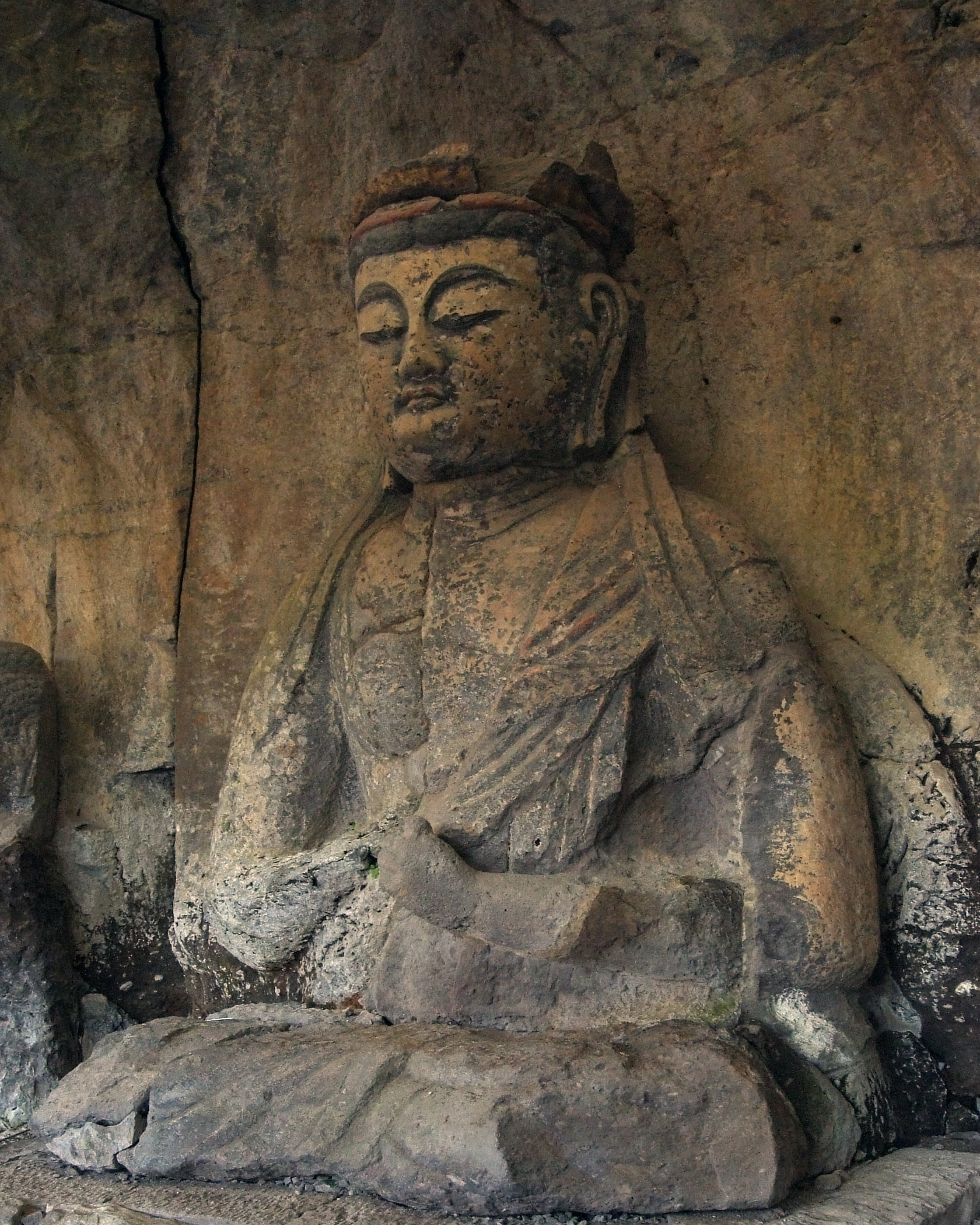 Usuki Stone Buddhas, at Usuki Oita Japan.